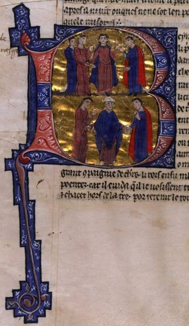 William of Tyre's Historia and Continuation, 13C manuscript from Acre. Bibliotheque Nationale Française, Richelieu Manuscrits Français 2628 Copyright-free, from Bibliotheque Nationale Française site Gallica (